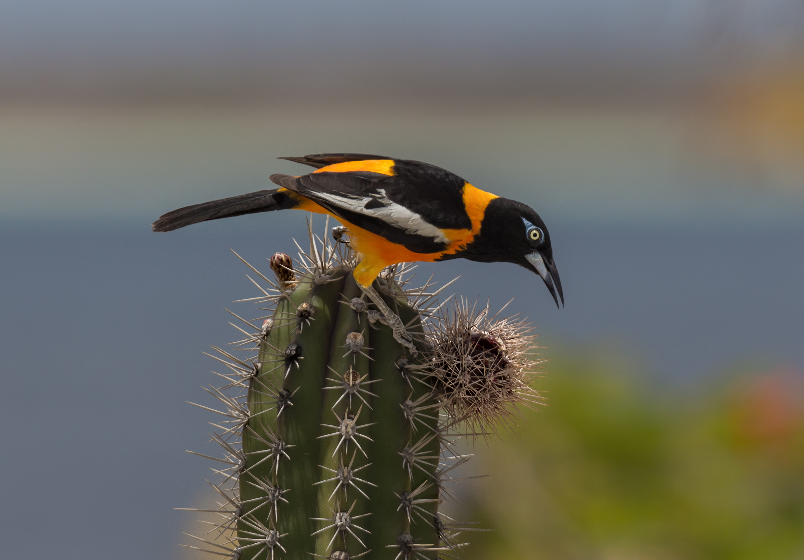 Venezuelan troupial (Icterus icterus) eating the flower of a Pilosocereus lanuginosus on the island of Bonaire, 50 mi (80 km) northwest of Venezuela in the Dutch Caribbean.